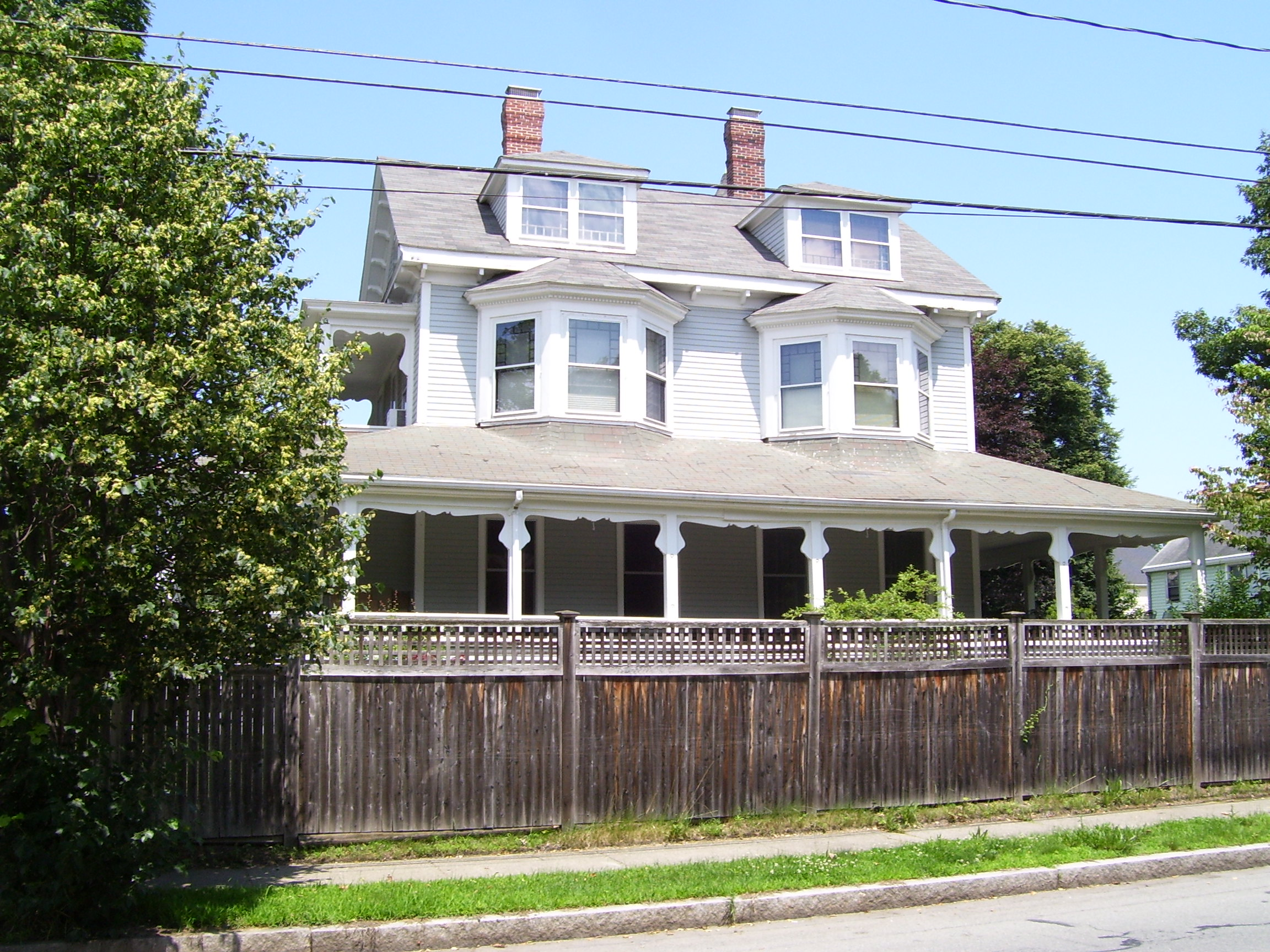 The Celia Thaxter House in Newton, Massachusetts. On the National Register of Historic Places in Newton, Massachusetts. This is my 2009 photo.